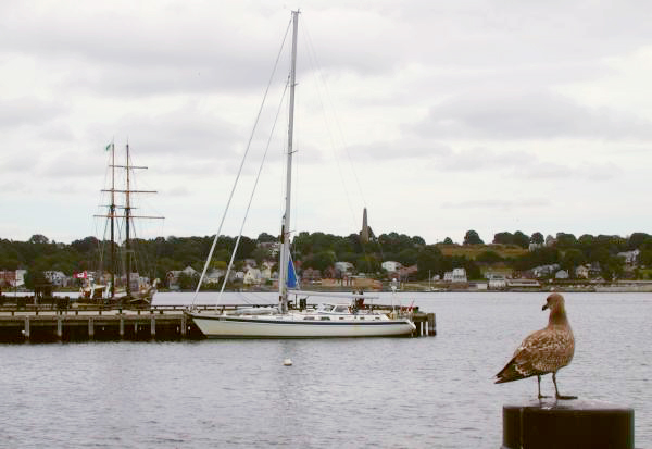 The Thames River in New London, looking toward Groton